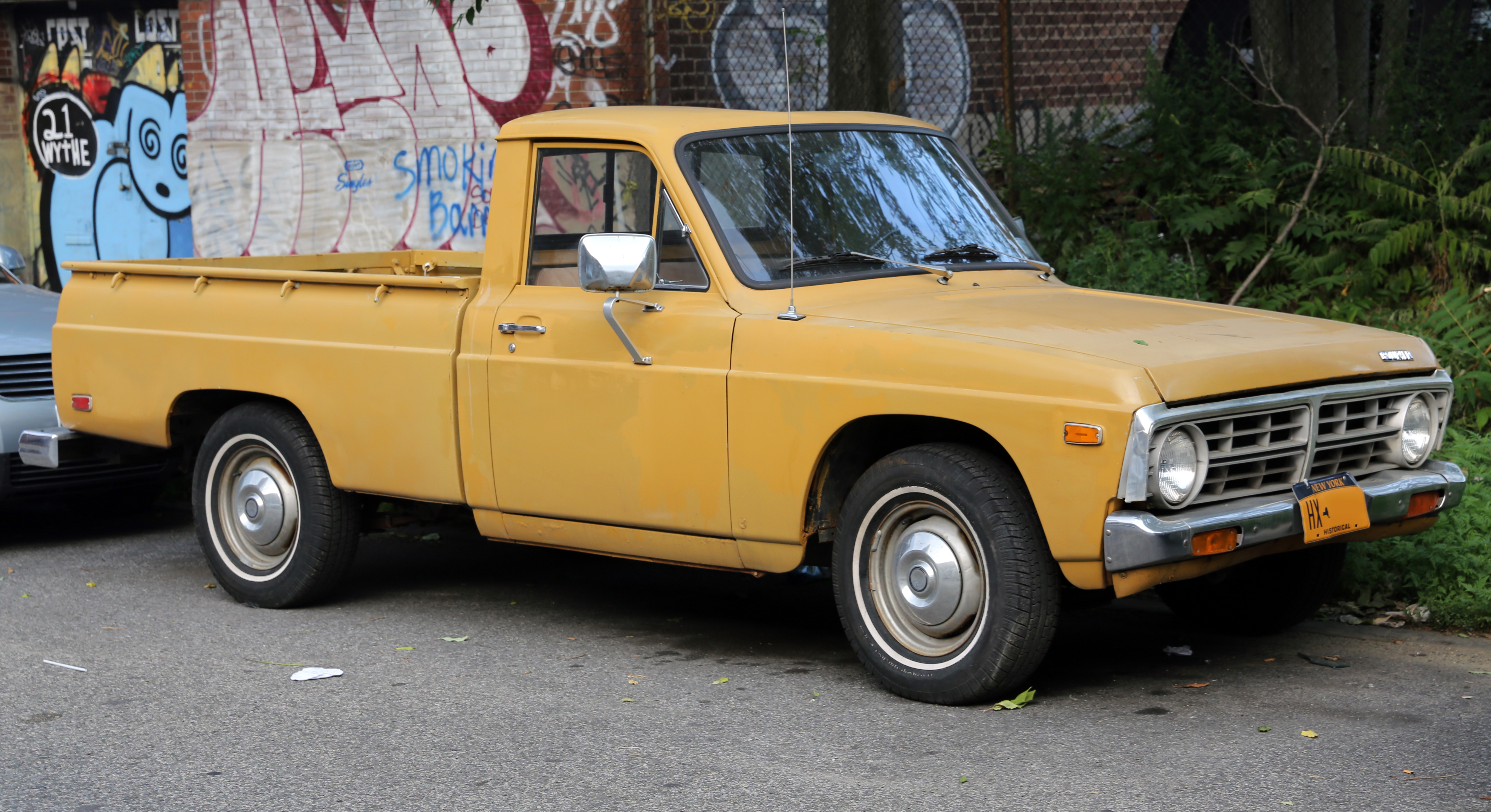 Front right ¾ view of a 1972 Ford Courier. The 1972s are the only ones to carry this tiny "Courier" badge on the leading edge of the hood, rather than the later "F O R D" lettering.